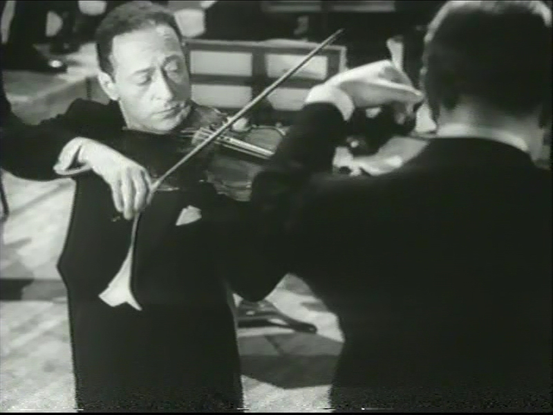 Jascha Heifetz from "Carnegie Hall".